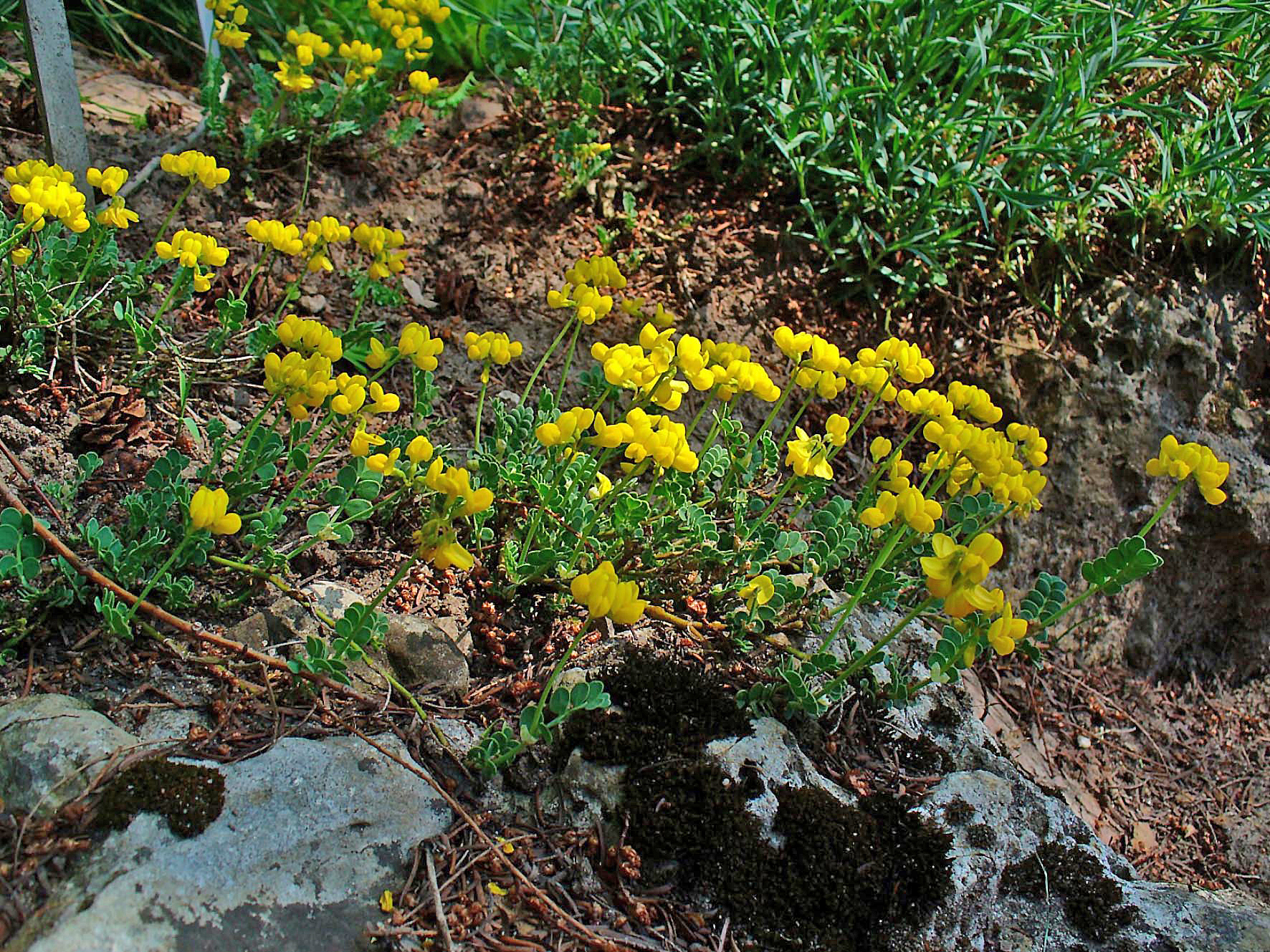 Coronilla vaginalis, Fabaceae, Small Scorpion Vetch, habitus; Botanical Garden KIT, Karlsruhe, Germany.